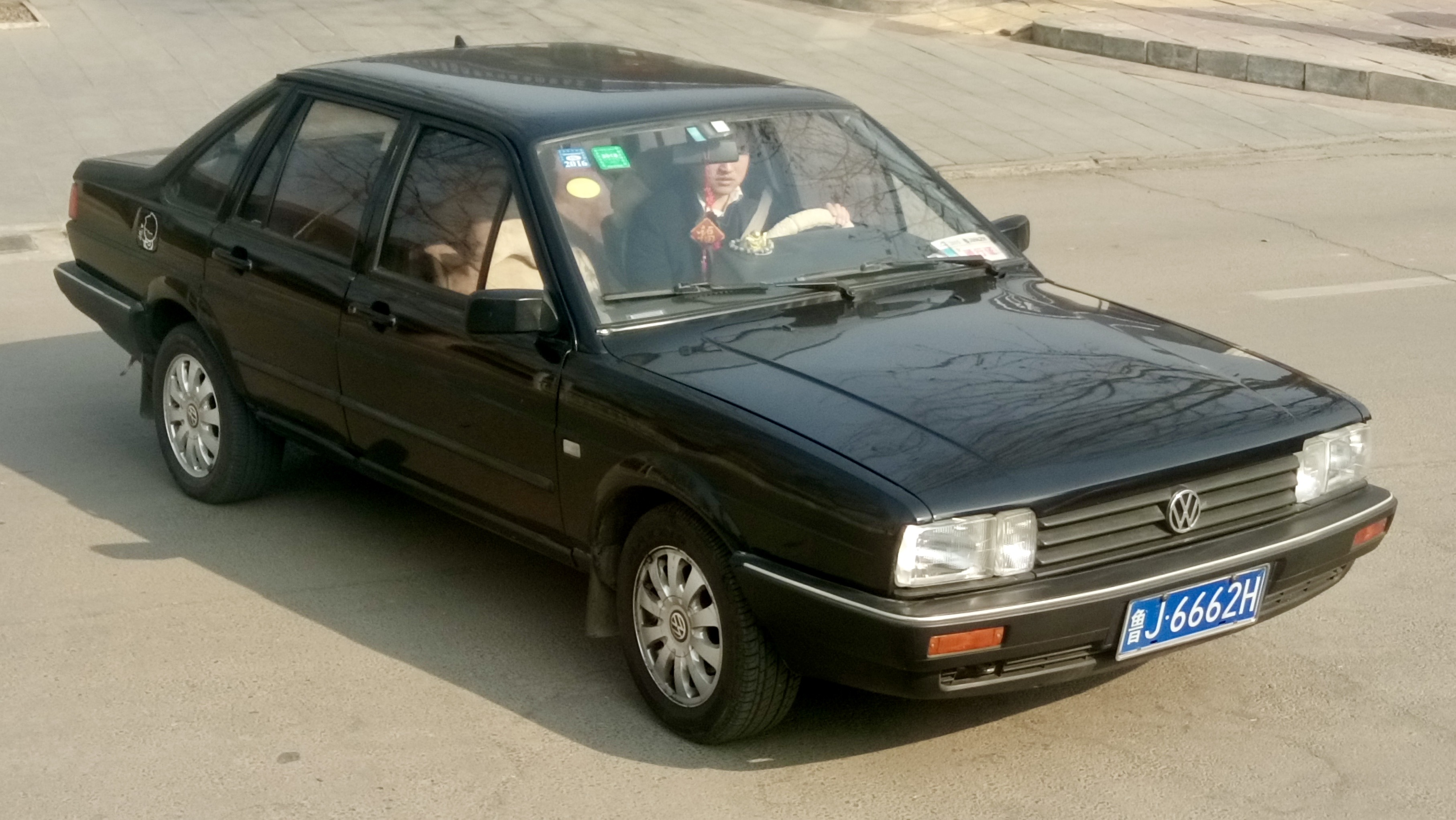 A Volkswagen Santana in Shendong,China